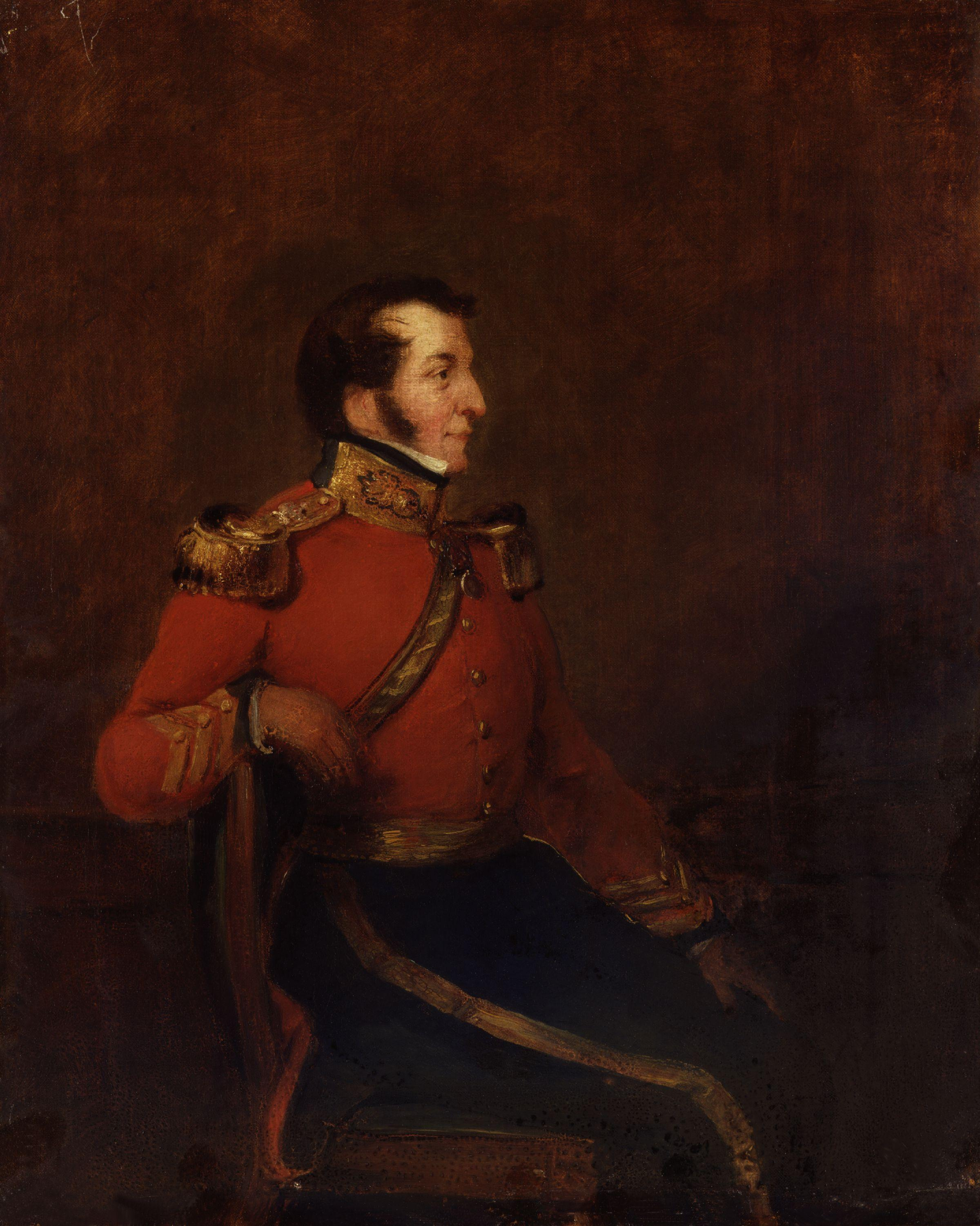 Arthur Moyses William Sandys, 2nd Baron Sandys, by William Salter (died 1875). All images in this batch have been confirmed as author died before 1939 according to the official death date listed by the NPG.